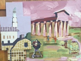 Reclaimed wood, house paint, mosaic & fabric